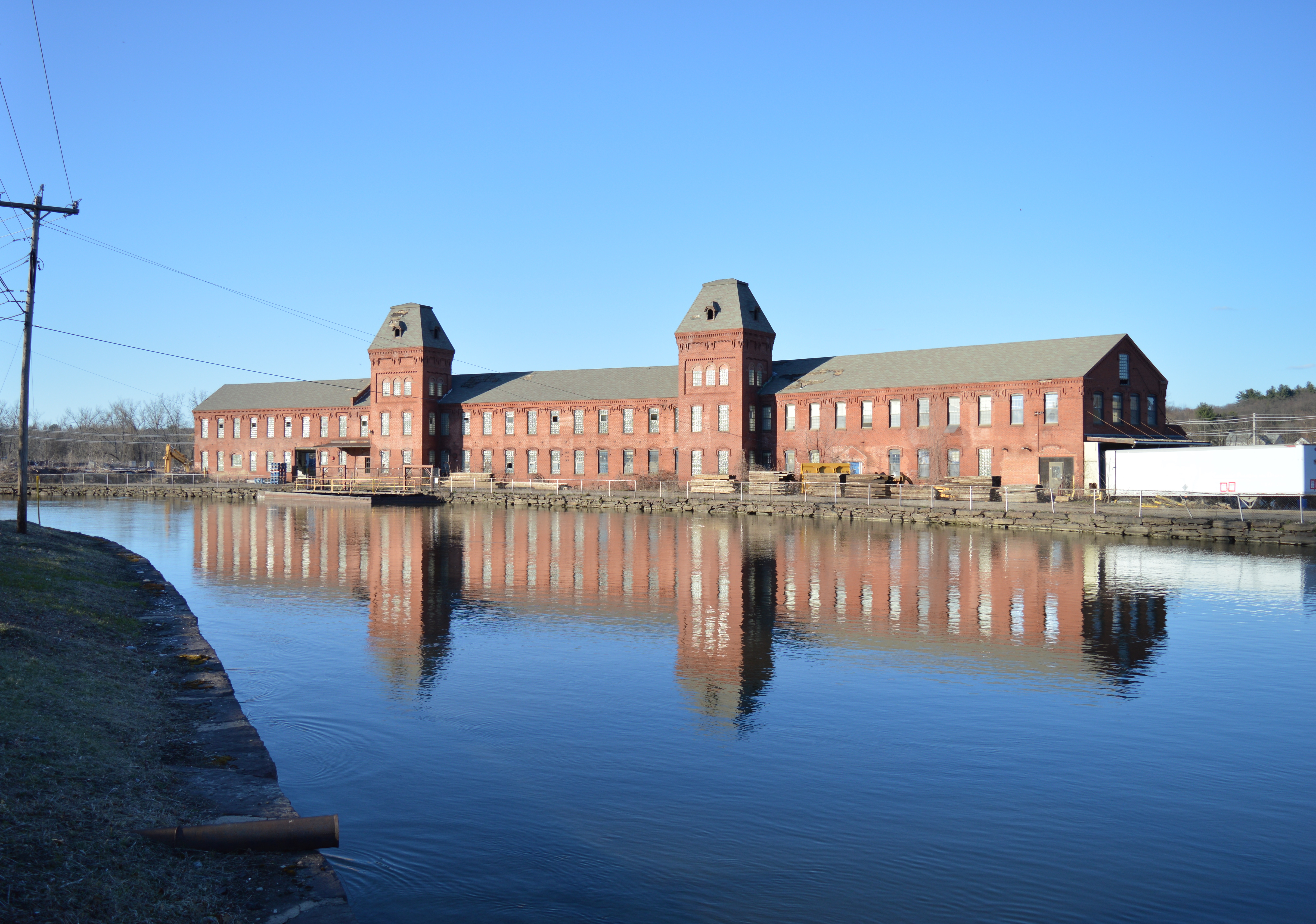 The front facade of the Albion Paper Mill, of Holyoke, Massachusetts designed by David H. Tower in 1869.